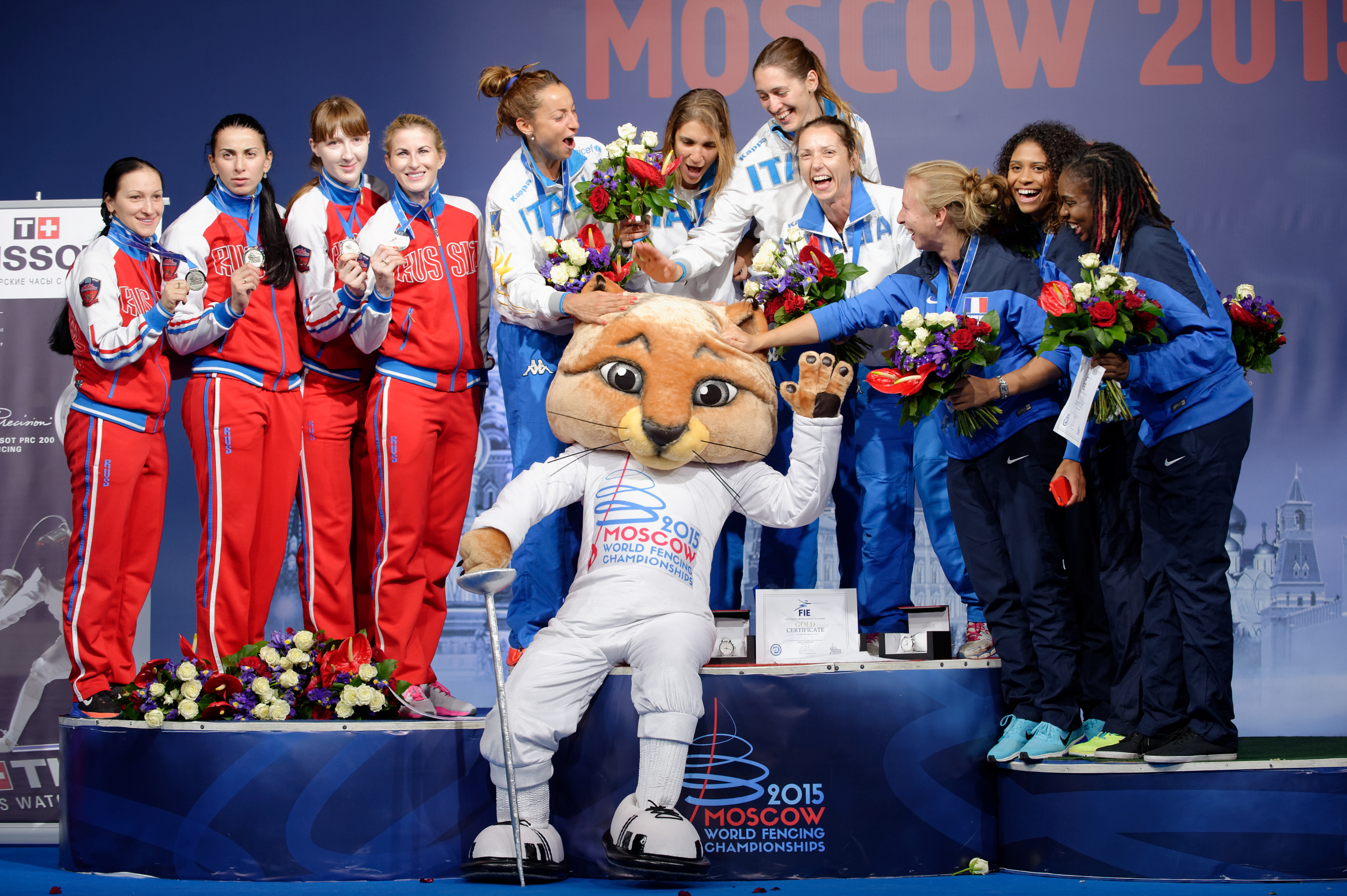 From left to right, Russia, Italy and France at the medal ceremony of the women's team foil event of the 2015 World Fencing Championships on 19 July 2014 at the Olympic Stadium in Moscow.